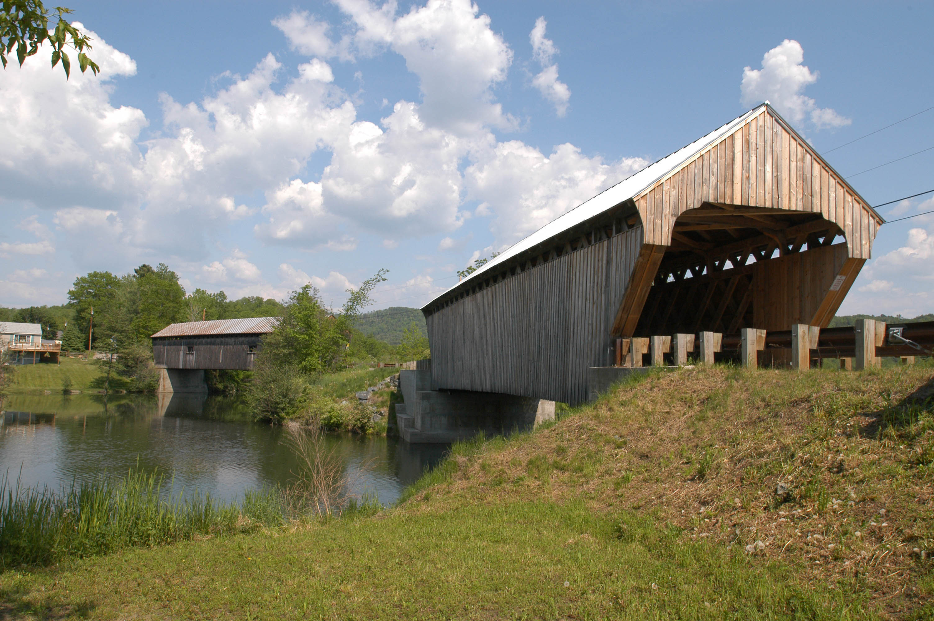 TWO BRIDGES CLOSE TOGETHER OVER OTTAUQUECHEE RIVER IN NORTH HARTLAND. The Willard bridge, on the left, is a 135’ Town lattice truss bridge.